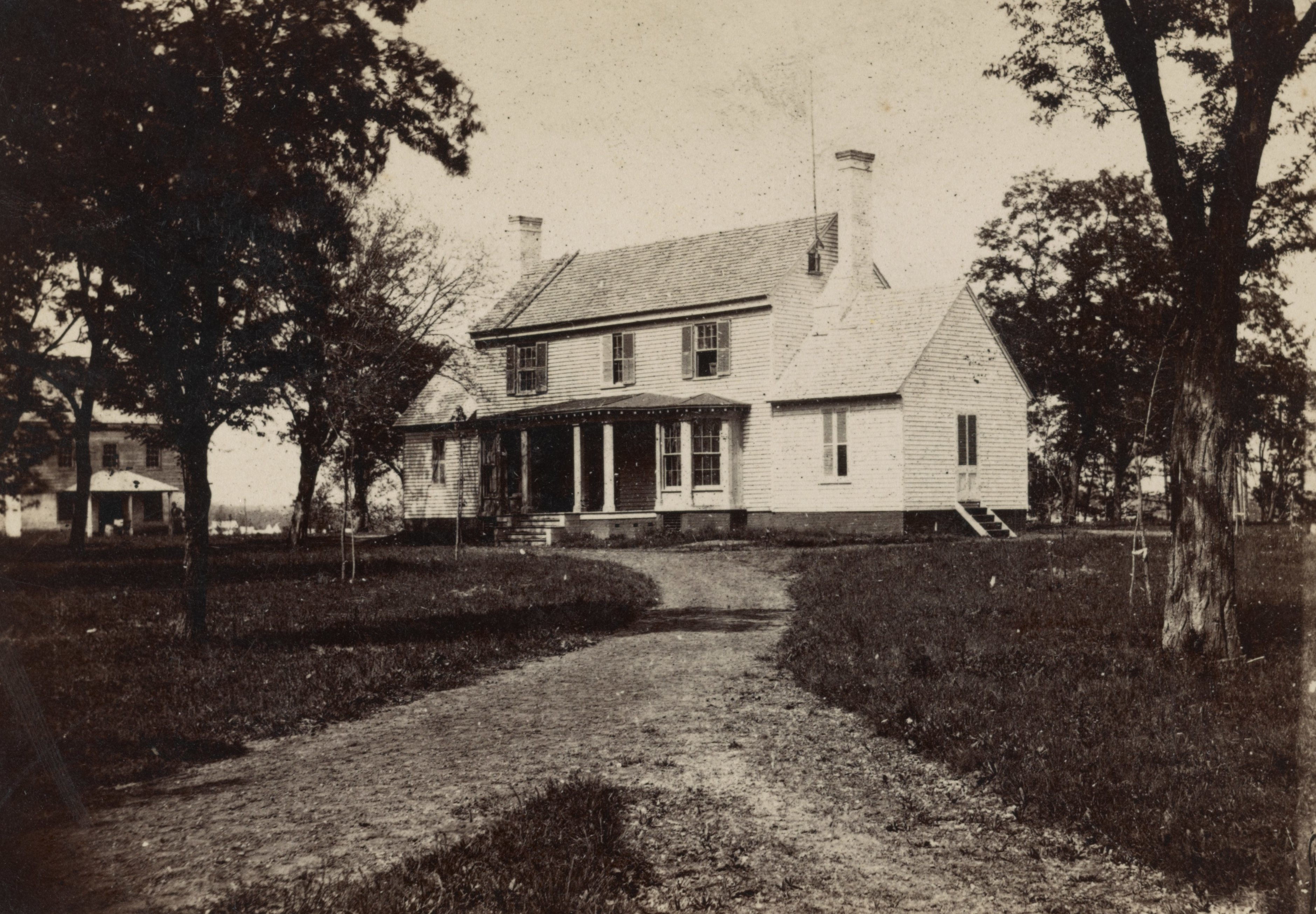 Title: White House, formerly residence of Mrs. Custis Washington, now the residence of Col. Lee, 17th May, 1862 Abstract/medium: 1 photograph : albumen silver print on card mount ; 11.5 x 15 cm (mount)